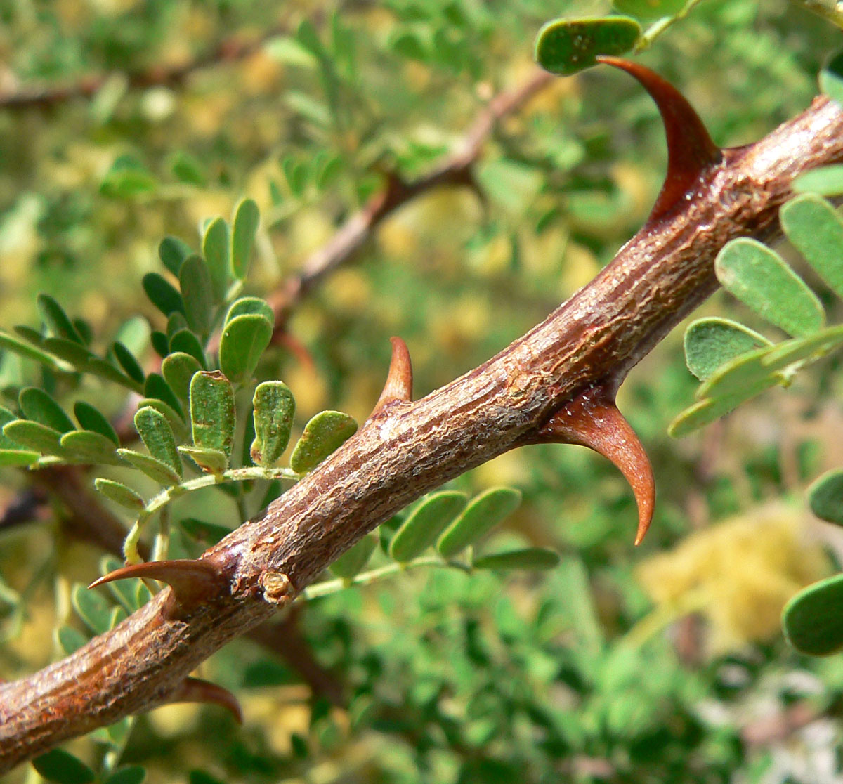 Acacia greggii in Red Rock Canyon, southern Nevada